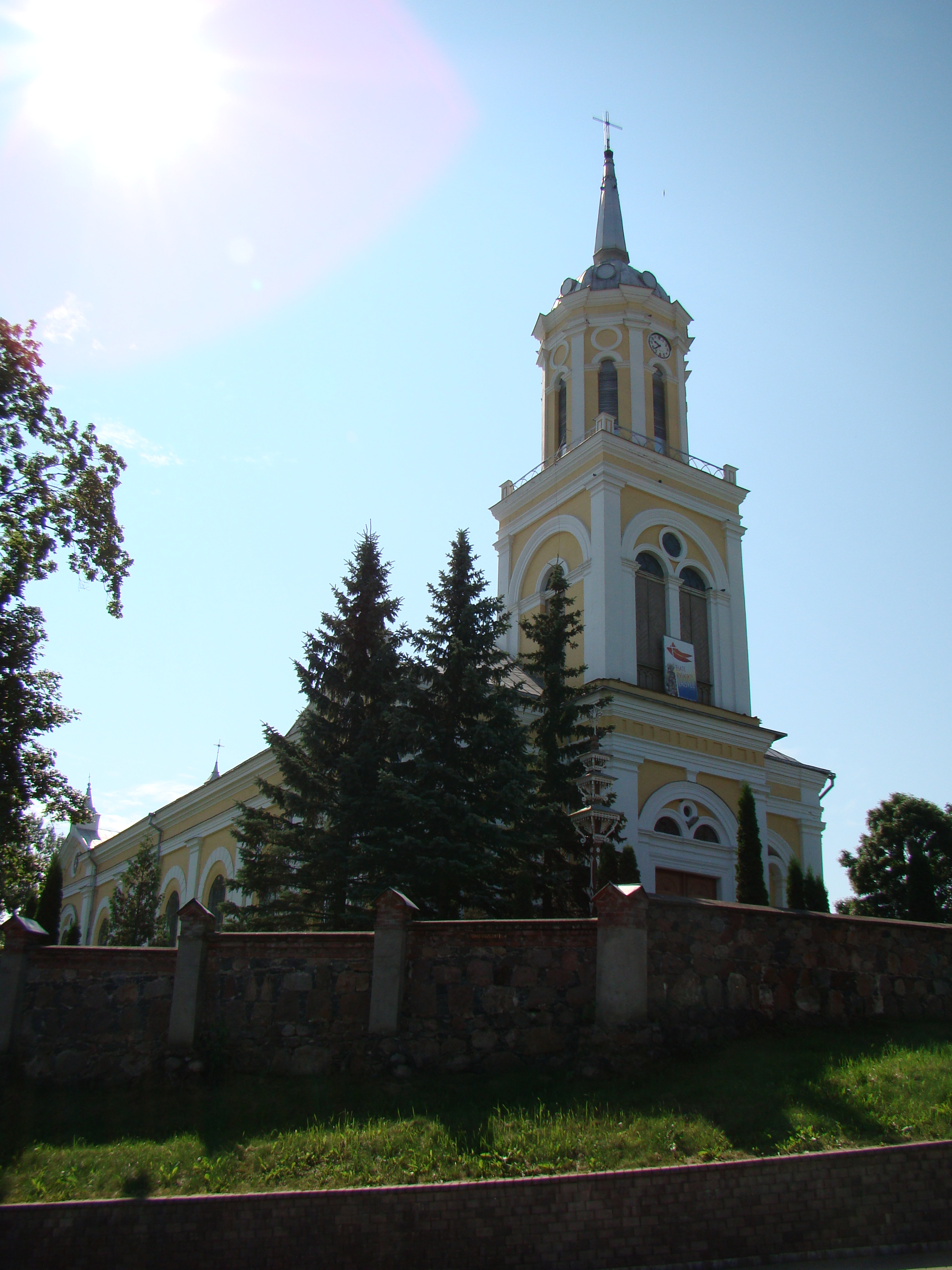 Kavarskas, Anykščiai district, Lithuania